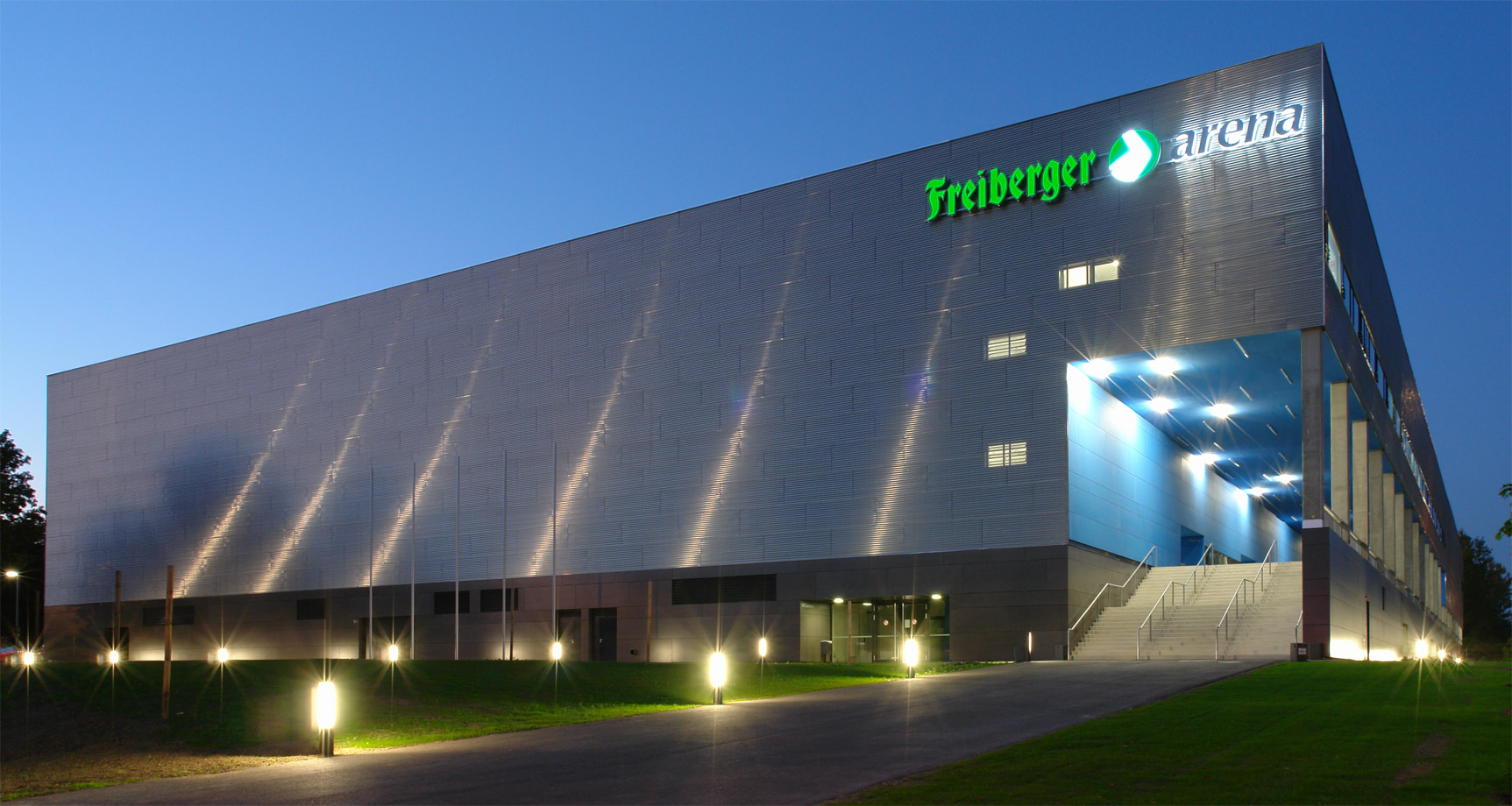 Freiberger Arena, ice hockey arena, home of ESC Dresdner Eislöwen